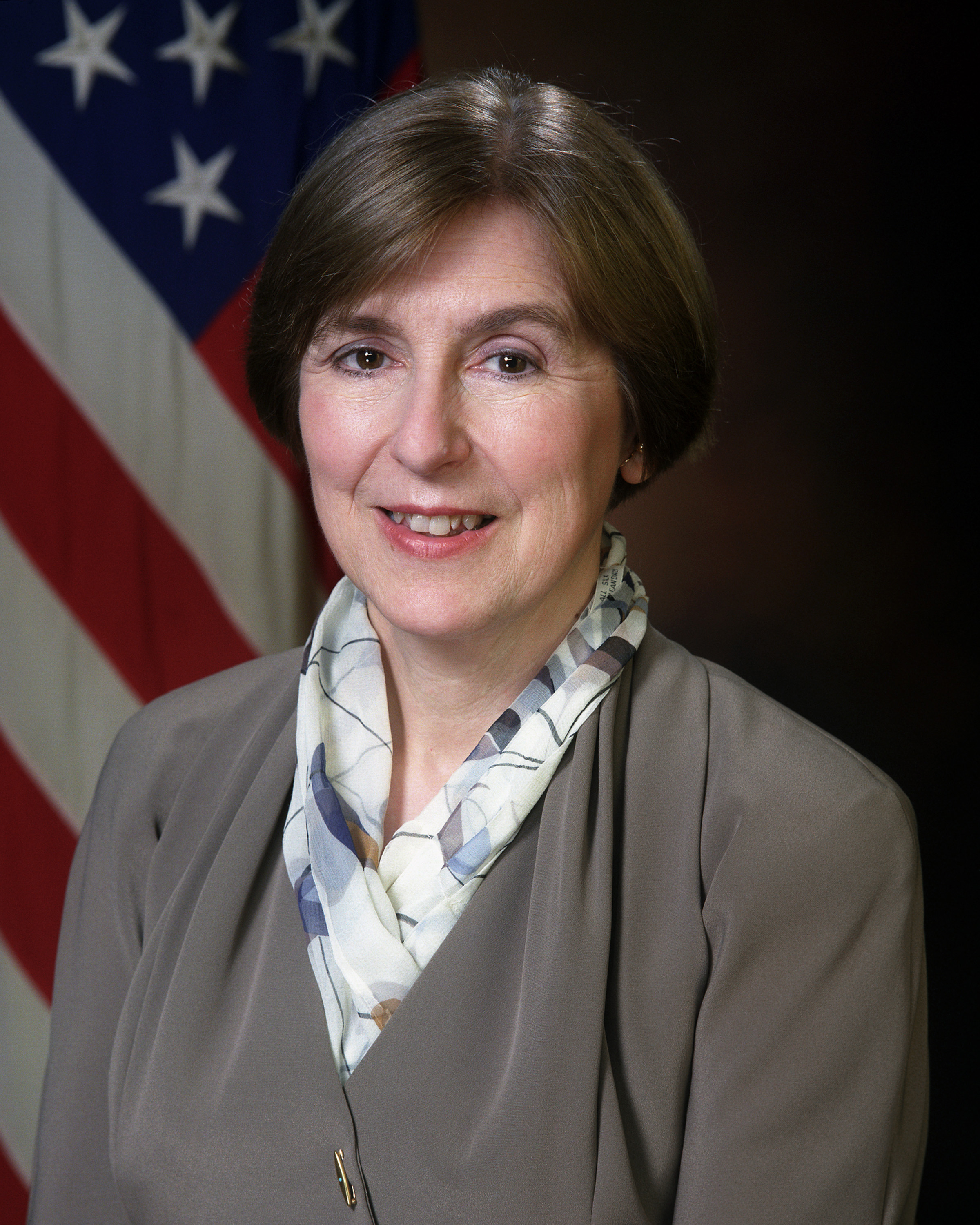 Portrait of Ms. Sara E. Lister, Assistant Secretary of the Army Manpower and Reserve Affairs, (U.S. Army photo by Mr. Scott Davis) (Released) (PC-192297)